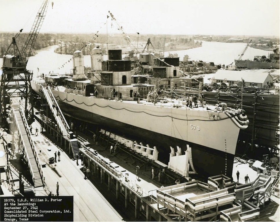 The U.S. Navy destroyer USS William D. Porter (DD-579) before her launch at the Consolidated Steel Corporation, Orange, Texas (USA), on 27 September 1942. Another five Fletcher-class destroyers are either under construction or fitting out in the background.